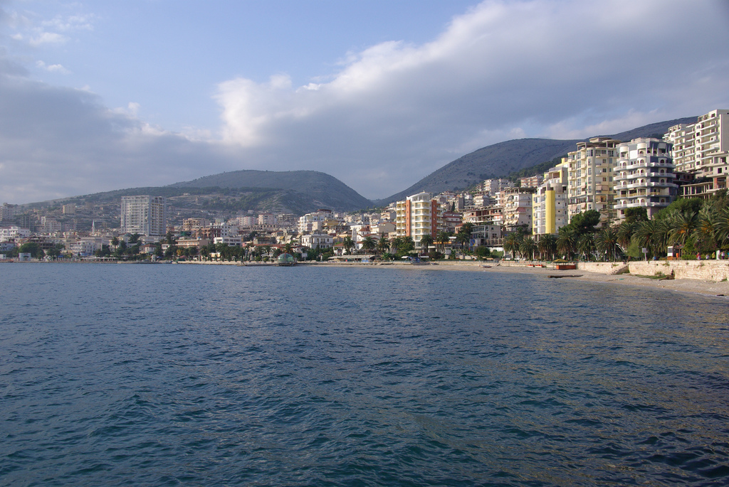 SARANDA